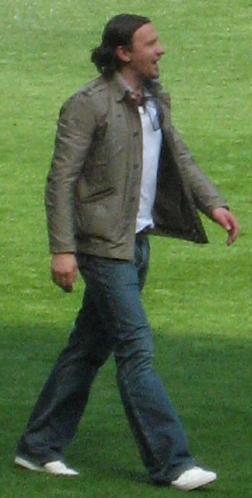 Mario Stanic returns to Stamford Bridge